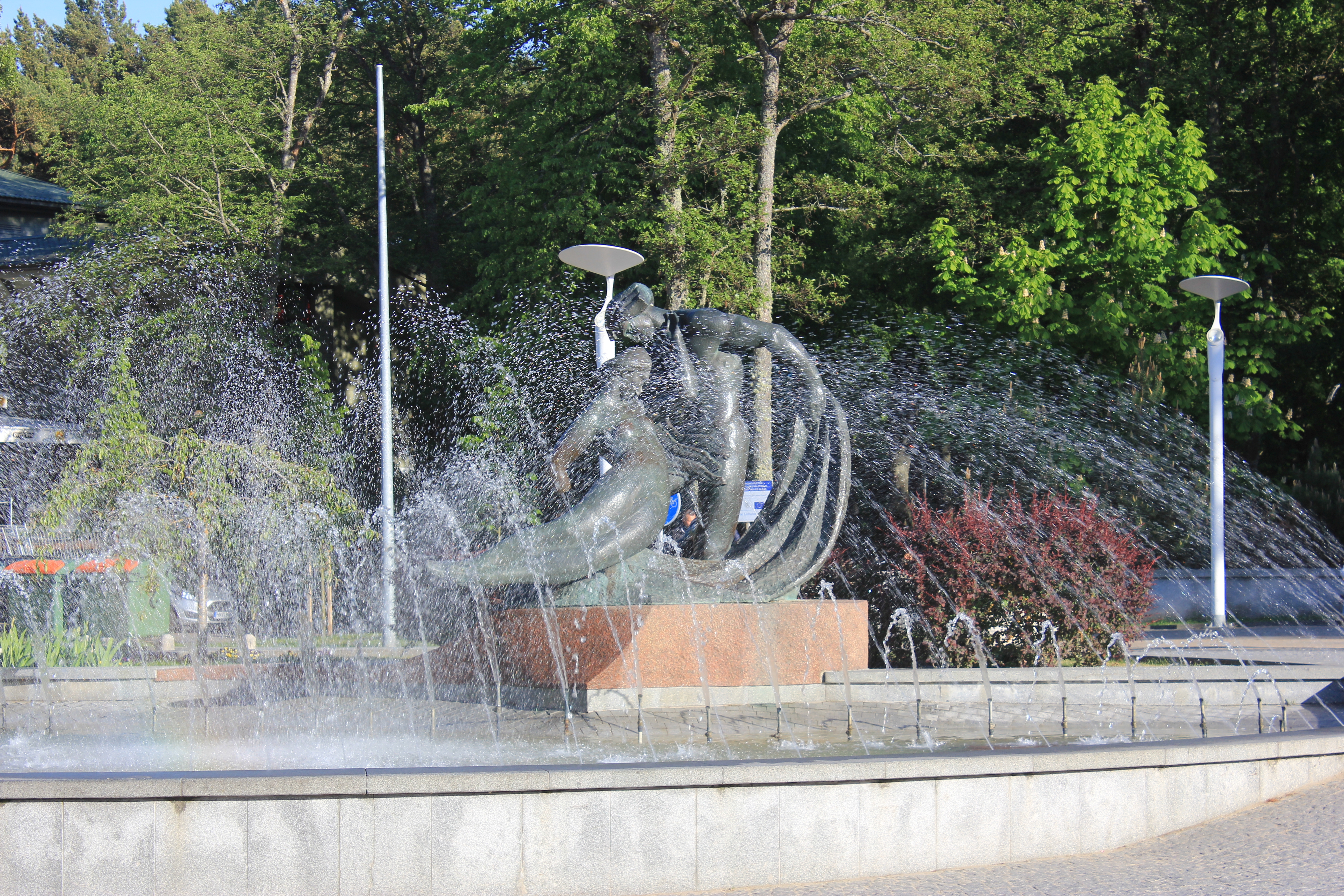 Palanga - fountain "Jūratė and Kastytis"